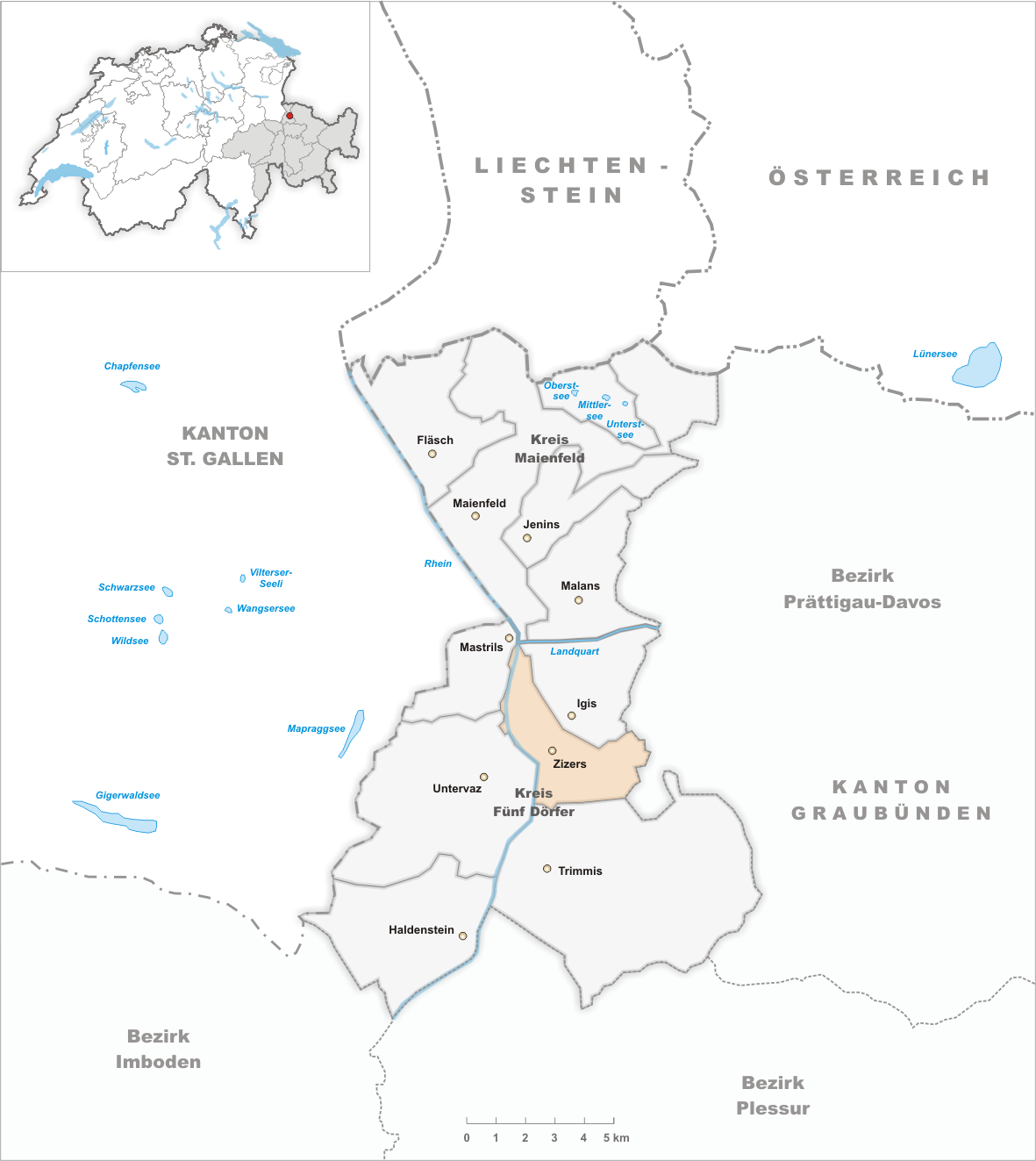 Municipality Zizers